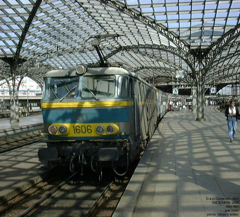 Belgian electric locomotive 1606 (series 16) seen in Cologne, Germany